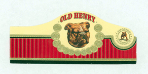 Scan of cigar band, Old Henry brand; scanned at 600 dpi; corrected with PhotoShop Elements